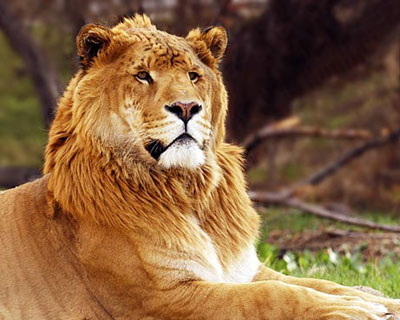 Liger, child of lion father and tiger mother